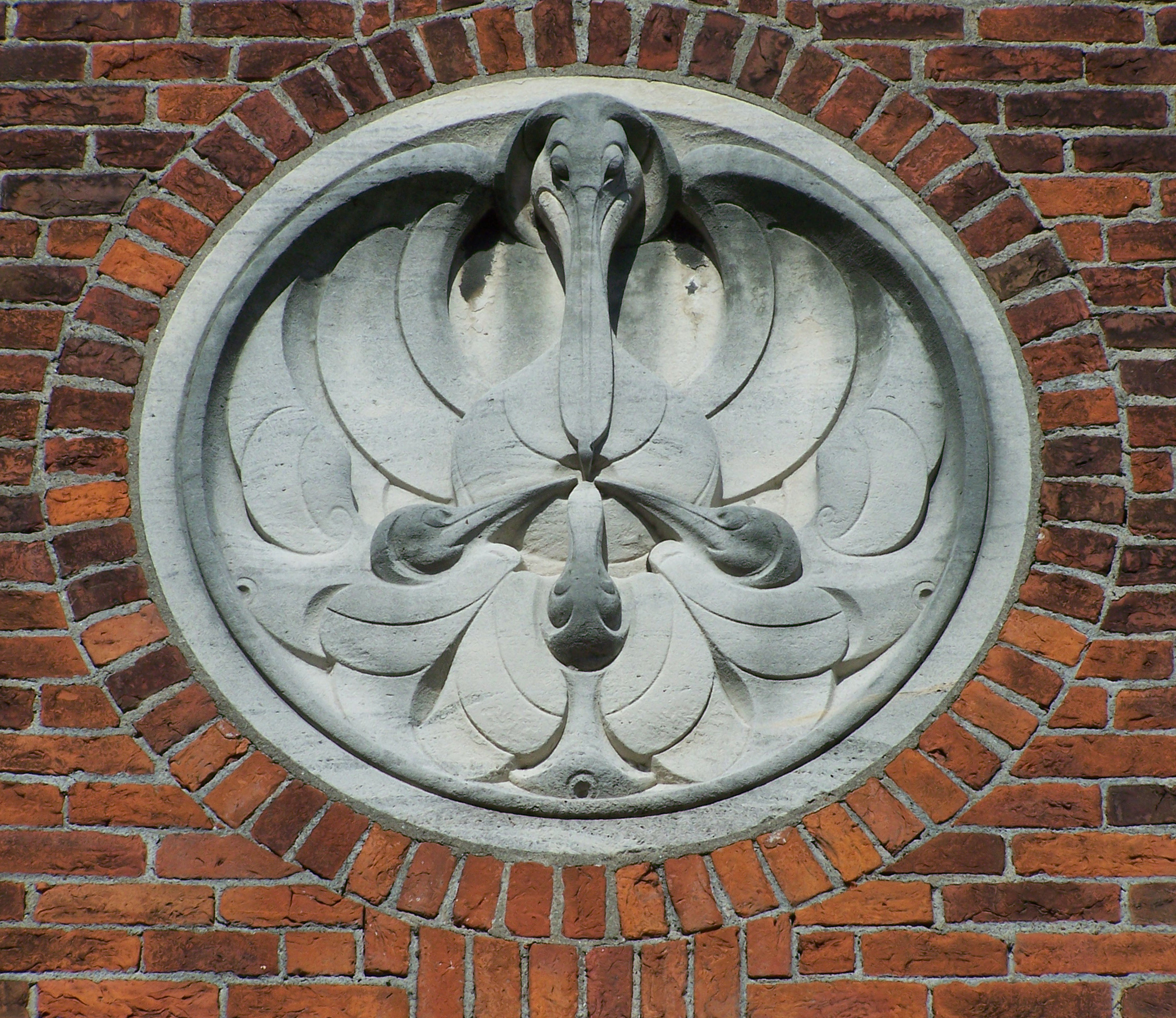 Relief of a Pelican at the outer wall of the building at the St. Laurensstraat 1-3 in Alkmaar. The building was a design by A.J. Kropholler for the insurancecompany Hooge Huys in 1930-1931. The sculpture was made by Joseph Mendes da Costa. A similar sculpture was made for the H.H. Martelaren van Gorcum (Amsterdam-oost) a few years earlier and for the O.L. Vrouwe van Lourdeskerk in Scheveningen in the outer wall of the chapel, made around 1913.